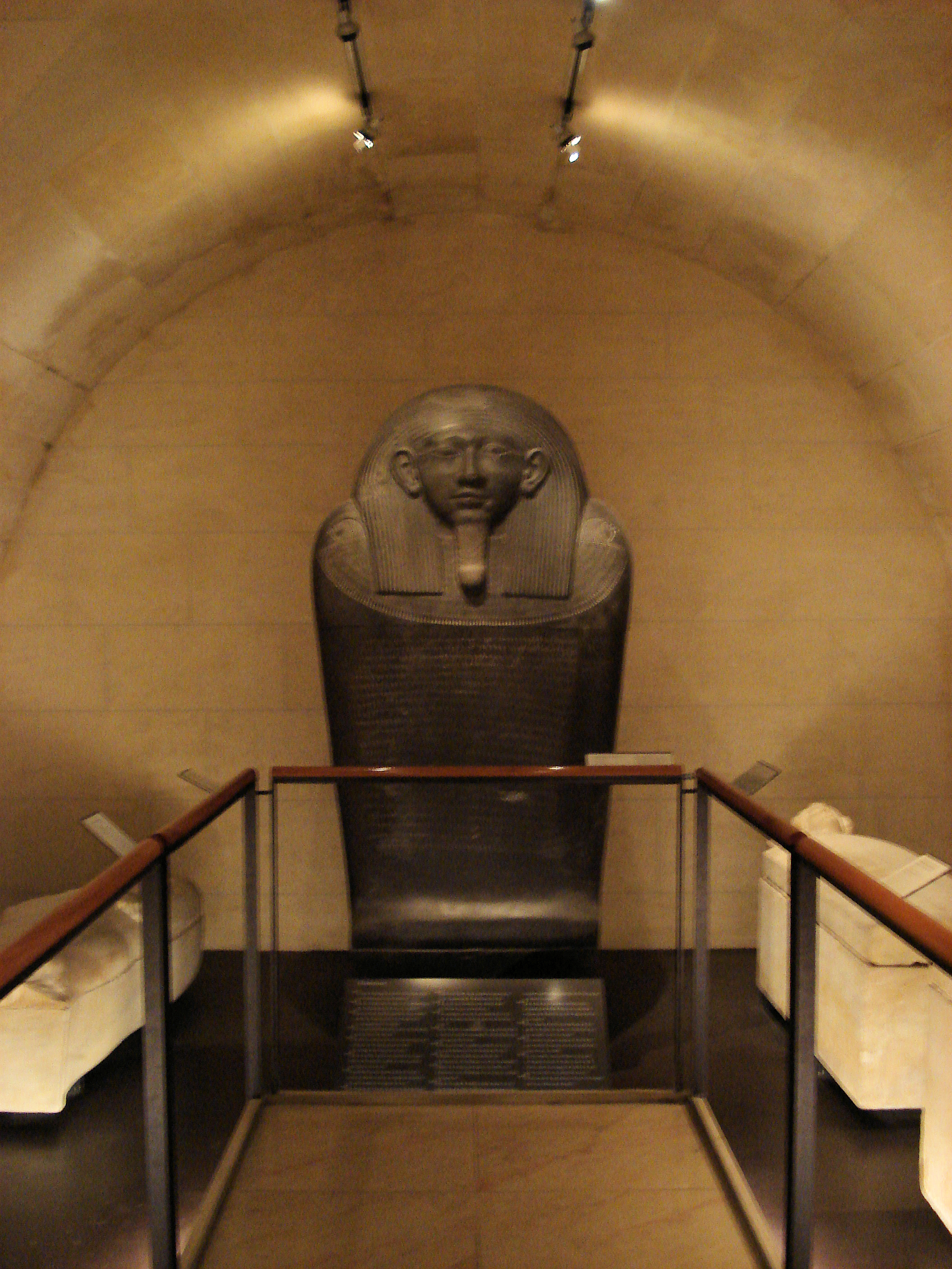 Louvre Museum Eshmunazar II sarcophagus